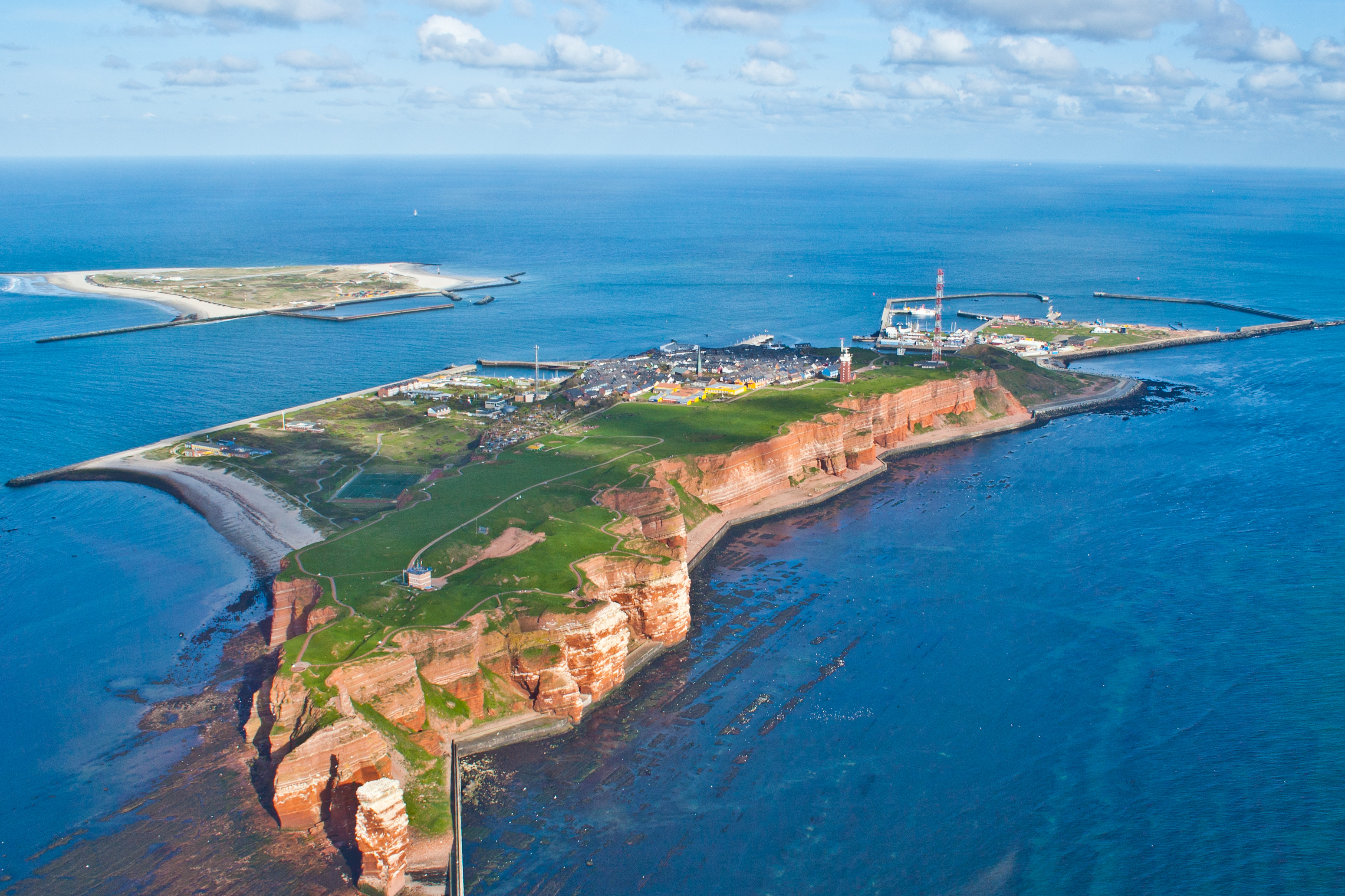 Aerial view of the offshore island Heligoland with the island Düne in the background.